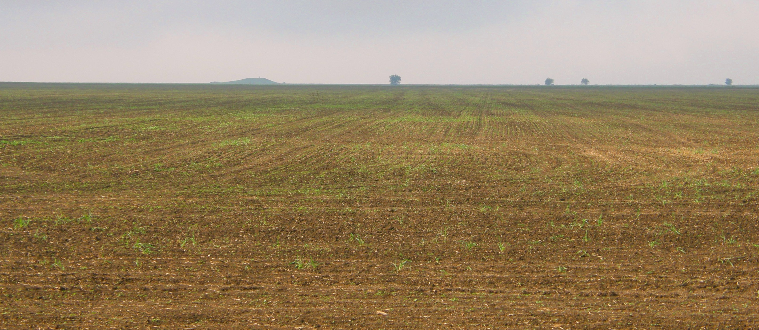 Eurasian Steppe — an ecoregion of Ukraine and Eurasia.